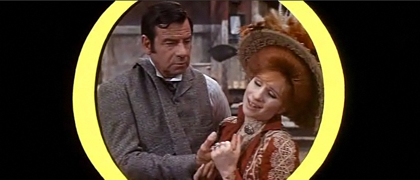 Screenshot of Walter Matthau and Barbra Streisand from the trailer for the film Hello, Dolly! (film)